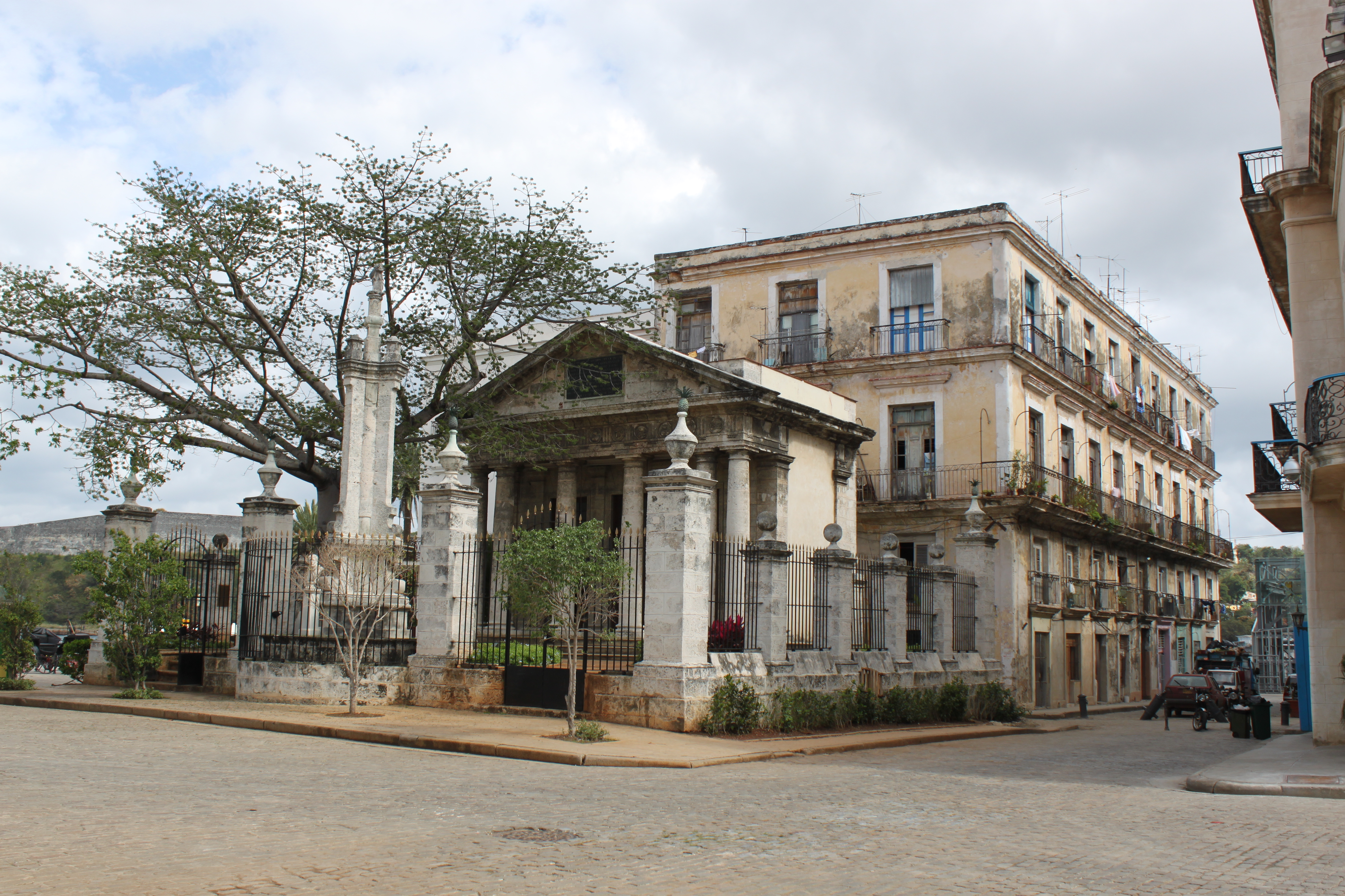 El Templete, Havana, Cuba